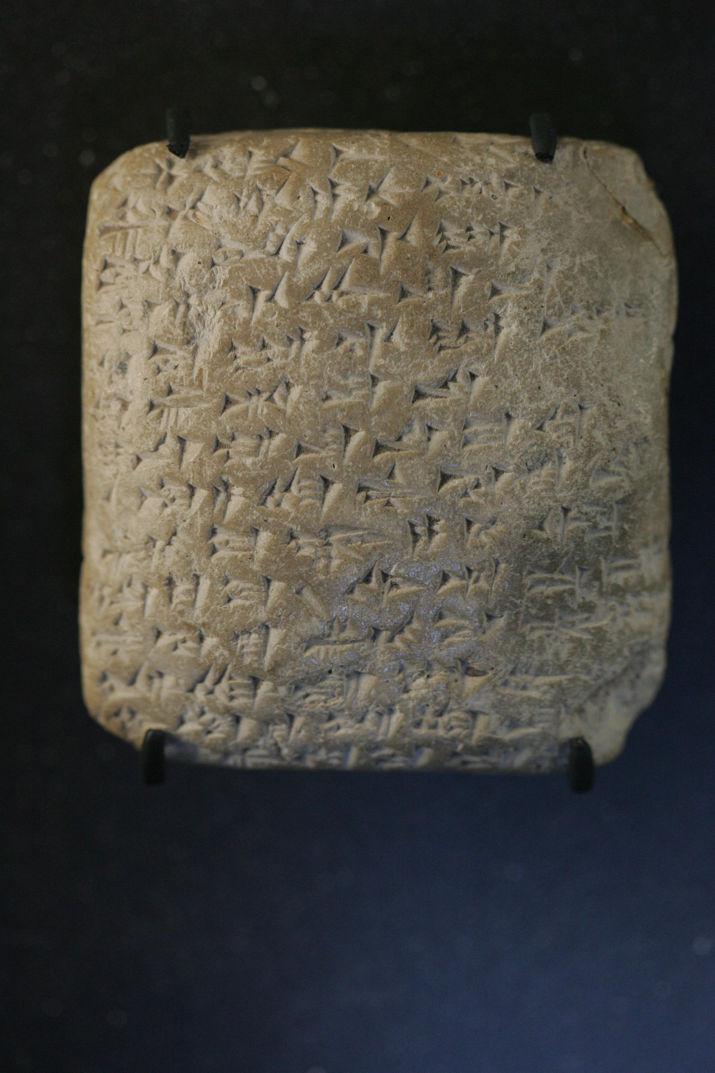 Amarna Letters Letter of Biridiya, prince of Megiddo, to the king of Egypt; subject of harvesting by corvee workers in the city of Nuribta. Terra cotta Current location (Inventory)Louvre Museum Native nameMusée du LouvreLocationParisCoordinates48° 51′ 37″ N, 2° 20′ 15″ E Established1793Website control : Q19675 VIAF: 257711507 ISNI: 0000 0001 2260 177X ULAN: 500125189 LCCN: n80020283 NLA: 35912436 WorldCat Sully, Rez-de-chaussée, Levant, Salle D, Vitrine 4 : L'âge du bronze récent 1550 - 1150 avant J.-C.Accession numberAO 7098. Also known as EA 365.Credit lineAcquired in 1918Referenceslouvre.frSource/PhotographerRama